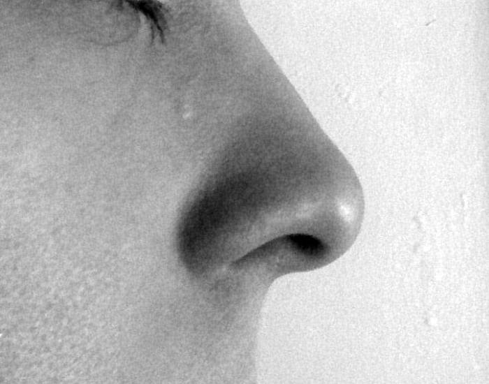 Picture of a nose. Portree ninast.